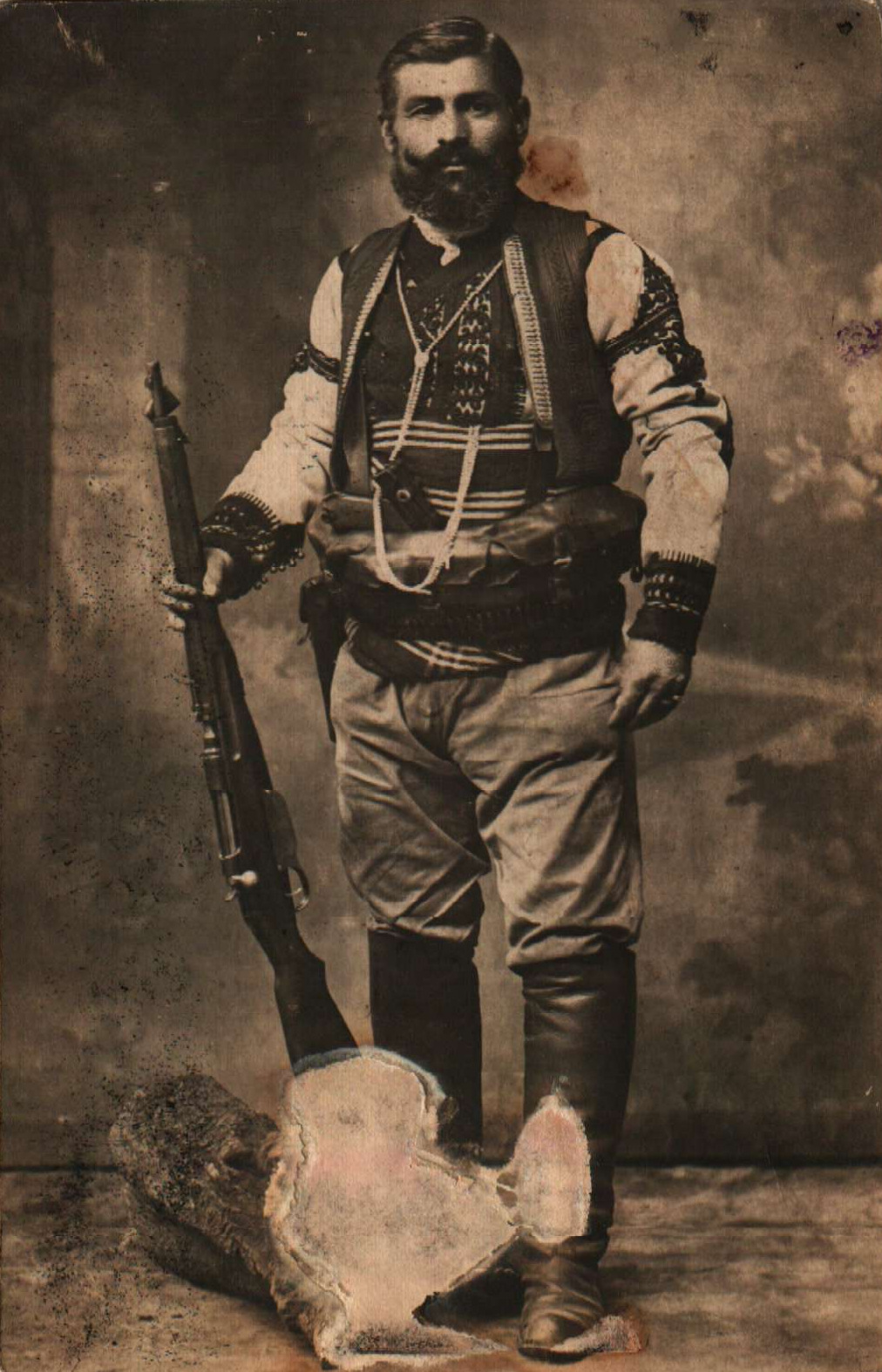 Hristo Petrov